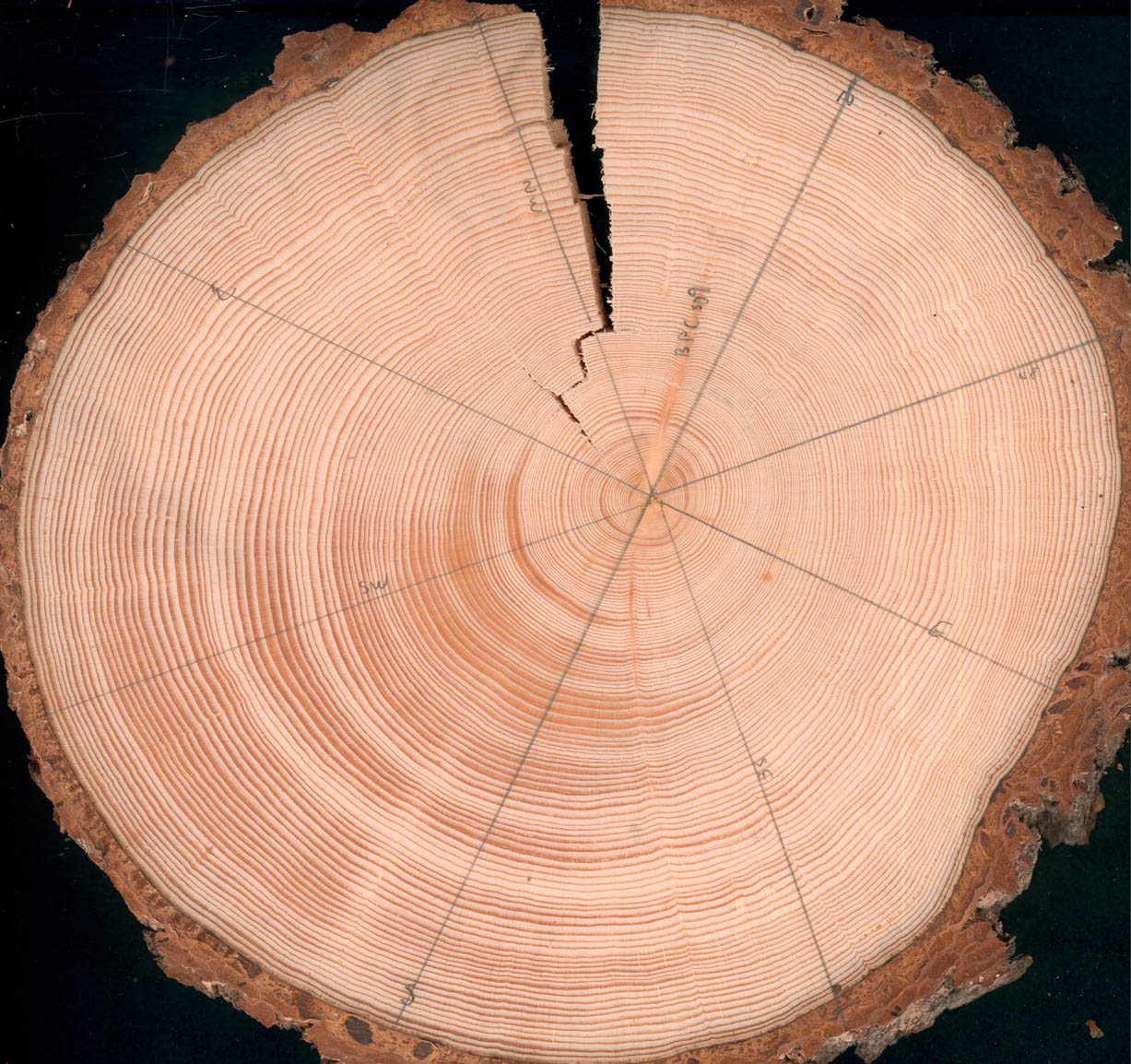 Reaction-wood in a crosscut of a Spruce stump (Picea Abies), taken 20 cm above ground, This tree was growing on soft ground in a bog, near Björbo, Sweden (60°27'N 14°40'E), and obviously leaning towards southwest (i.e down/left according to the image) during most of its lifetime. The image resolution is 200 dpi.